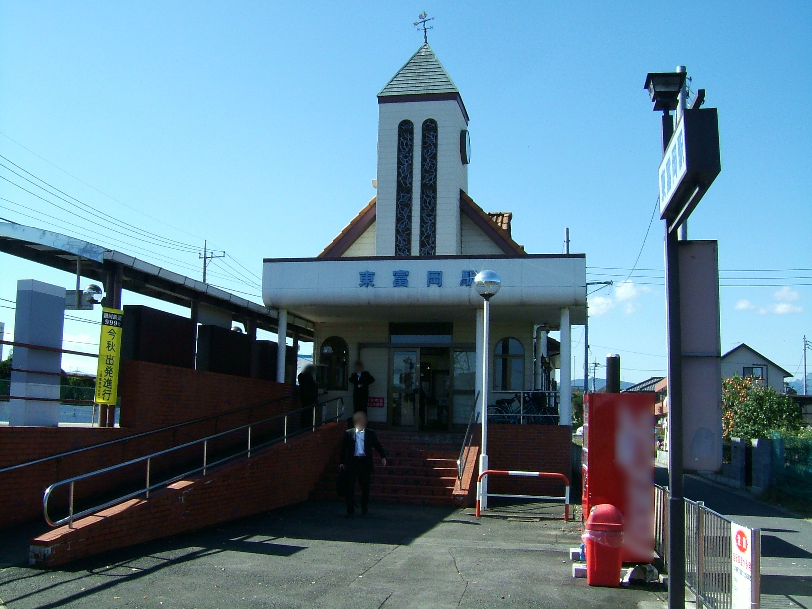 Higashi-Tomioka Station building (Jōshin Dentetsu Jōshin Line)